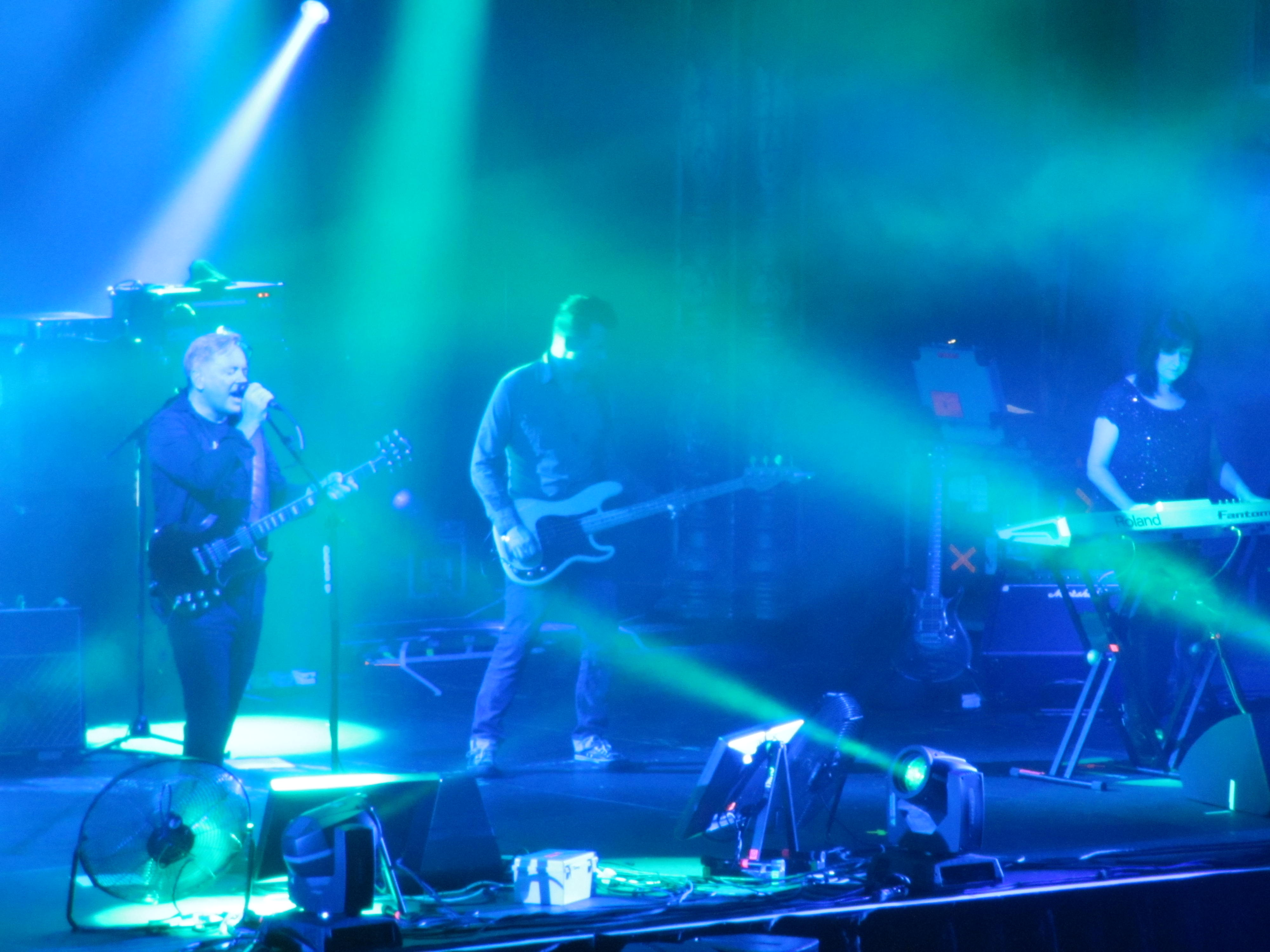 New Order perform in 2012